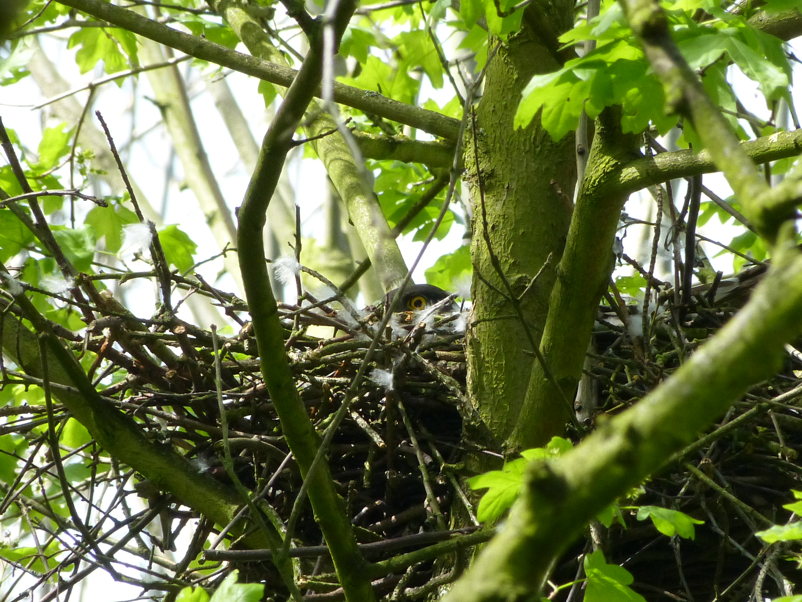 Sparrowhawk female watching me from her nest Latin name Accipiter nisus Family Hawks, vultures and eagles (Accipitridae) Overview Sparrowhawks are small birds of prey. They're adapted for hunting birds in... Where to see them ... When to see them At any time of year; you might see birds displaying to each other in early... What they eat ...